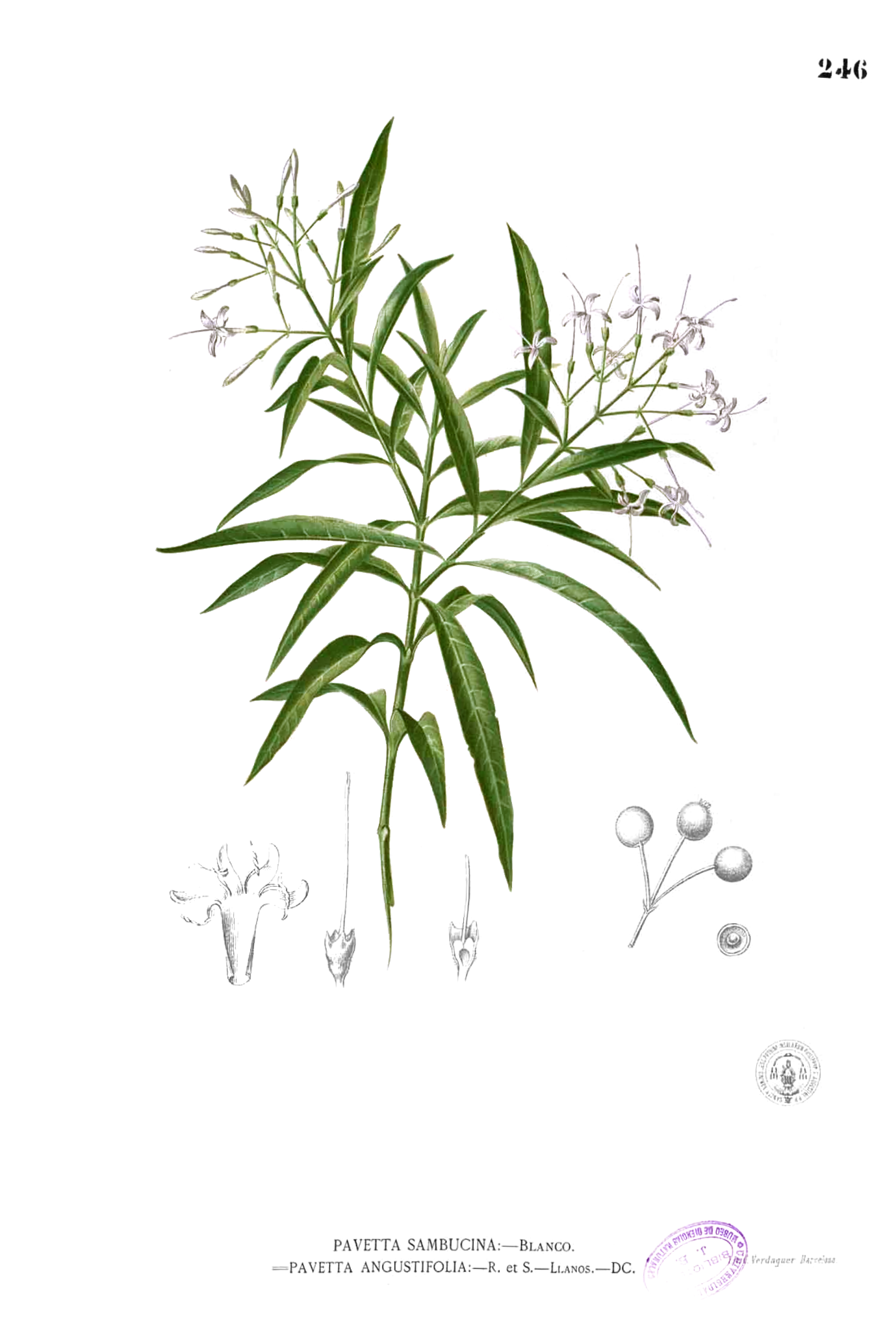 Plate from book